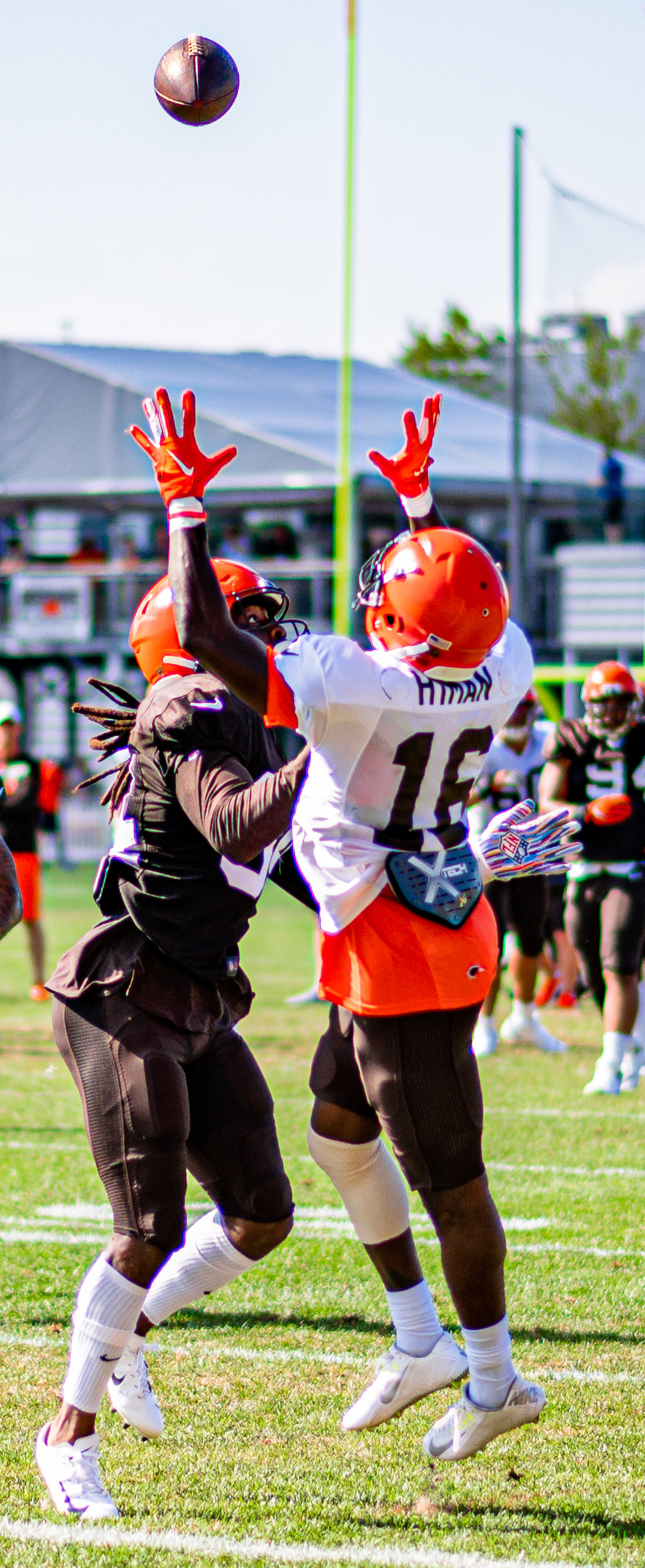 2019 Cleveland Browns Training Camp